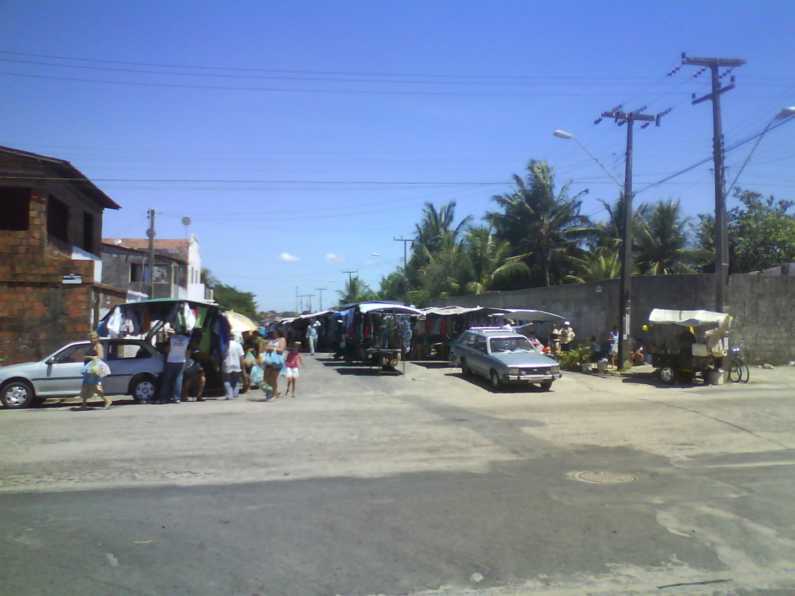 Fair in the neighborhood Dom Lustosa, which occurs every MondayGalego: Feira no barrio Dom Lustosa, que ocorre todos os luns